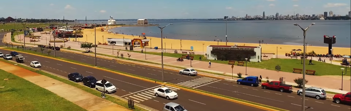 Costanera of Encarnación, Paraguay